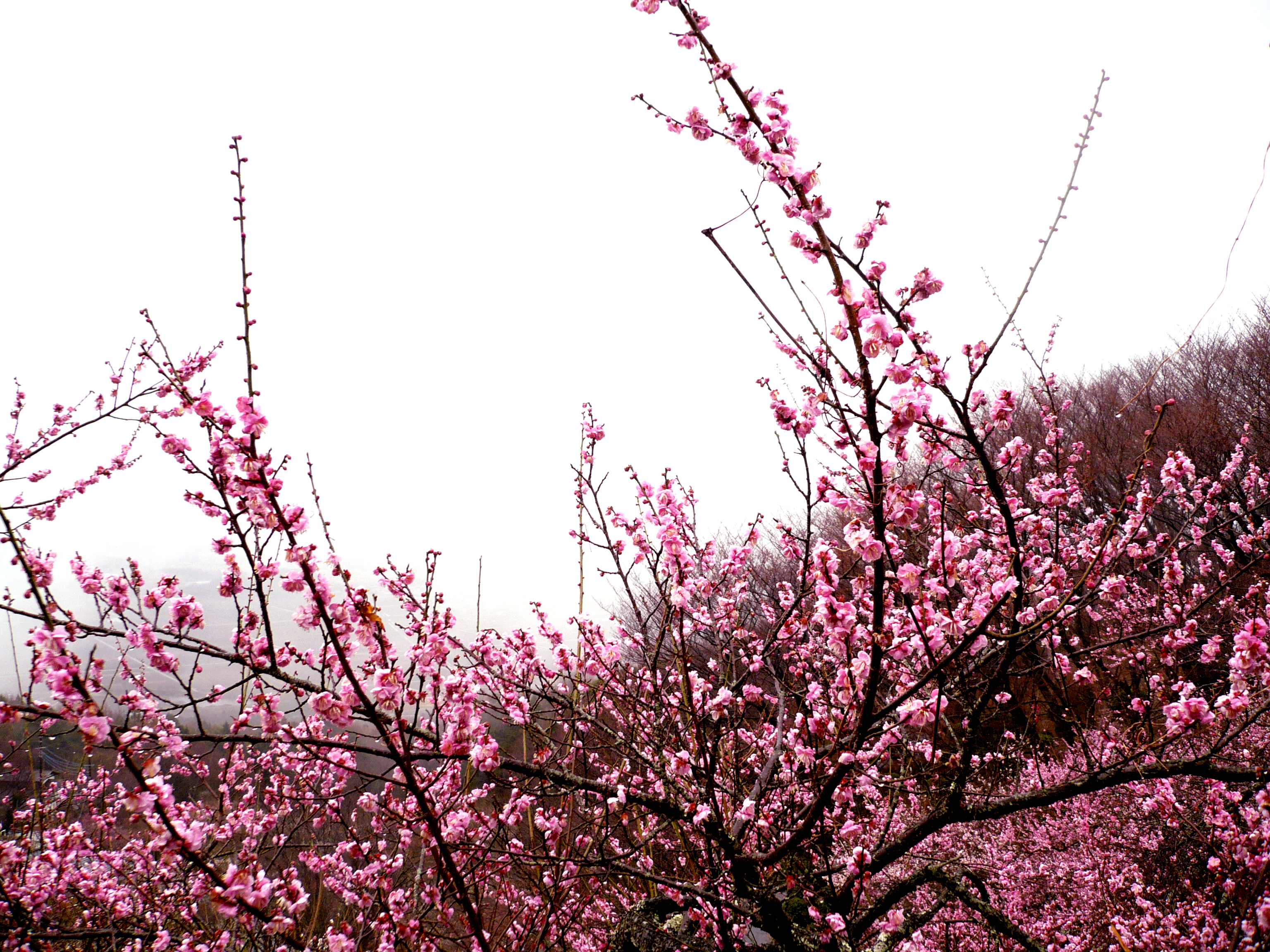 Ume Tree. Japan